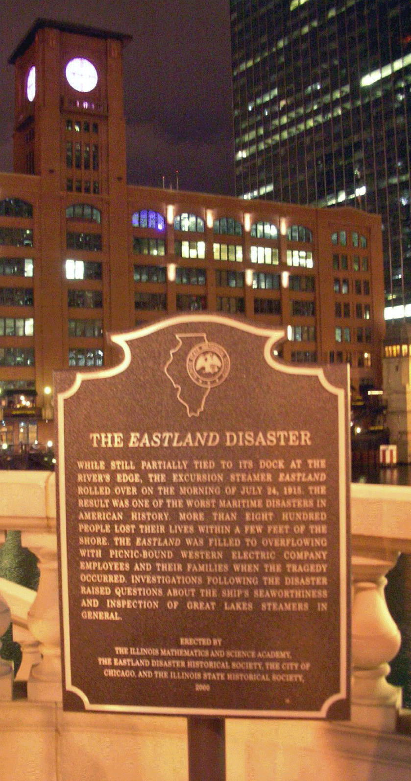 Plaque for the Eastland Disaster